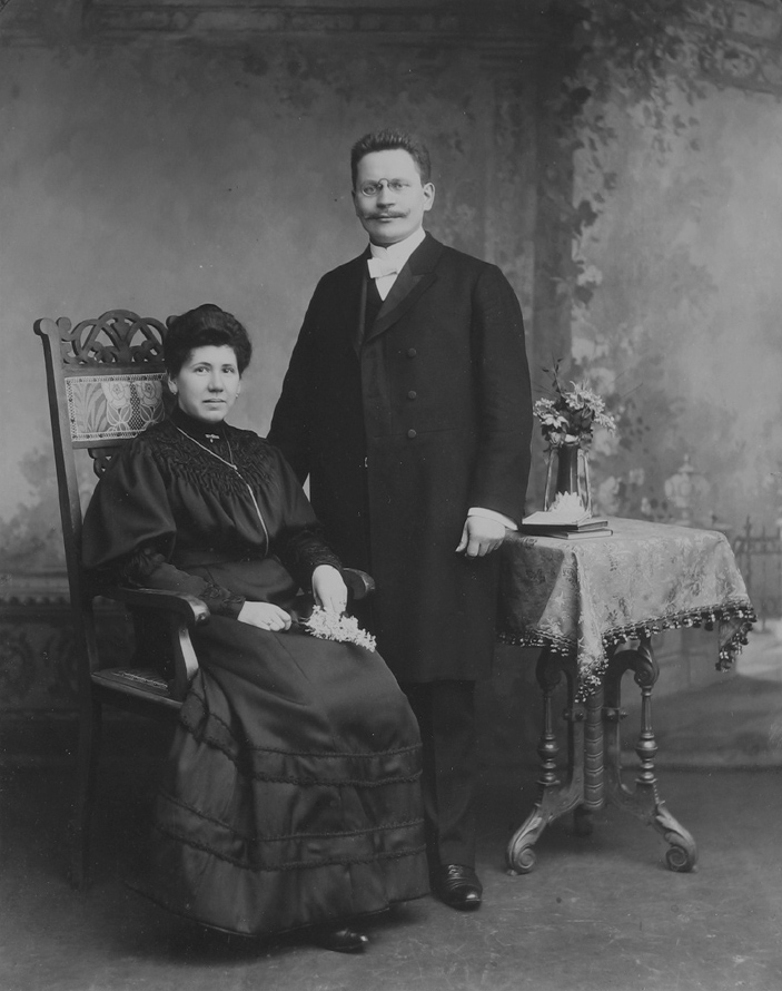 festive clothing around 1900 in Berlin/Germany